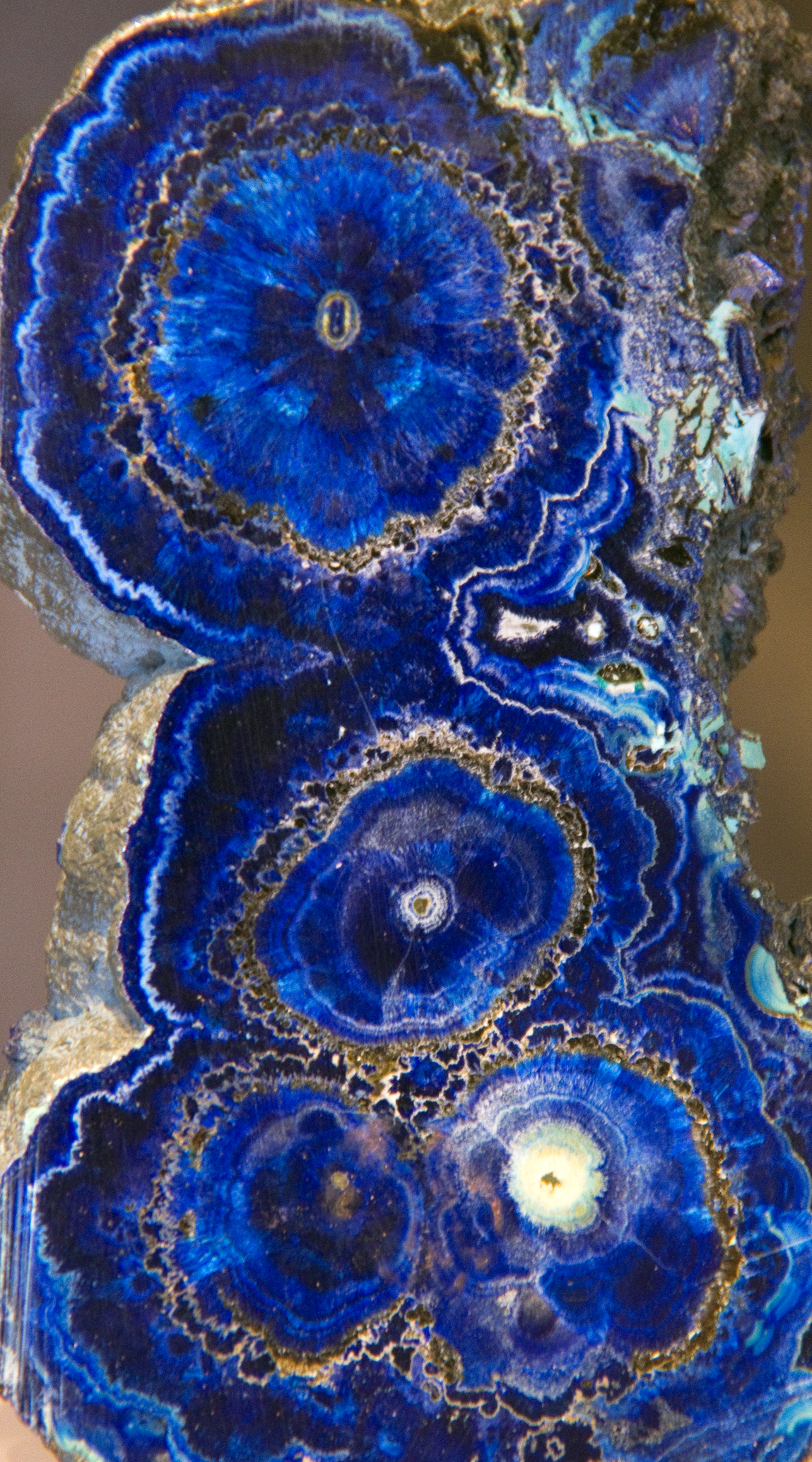 Azurite, columnar aggregate of stalactites, Bisbee Arizona. Detail, size 13 x 75 x 15 cm. Part of the Rocks and Minerals display in the Royal Ontario Museum Toronto